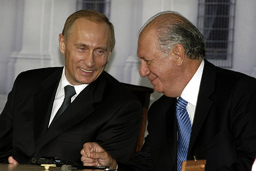 SANTIAGO, CHILE. During the signing of bilateral documents following the end of the talks.